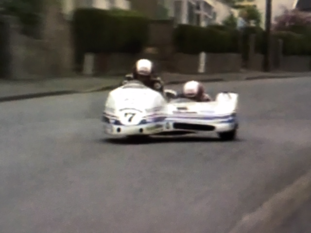 Dave Molyneux with Colin Hardman in the chair, descend Bray Hill on their way to third place and overall victory at the 1989 Sidecar TT.